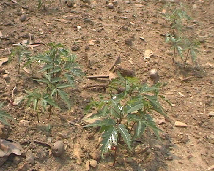 Choerospondias axillaris in Nepal